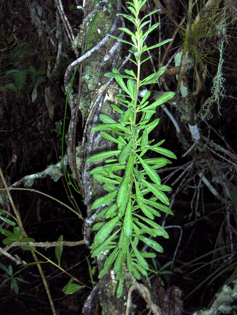 Found in Collier-Seminole State Park, Florida